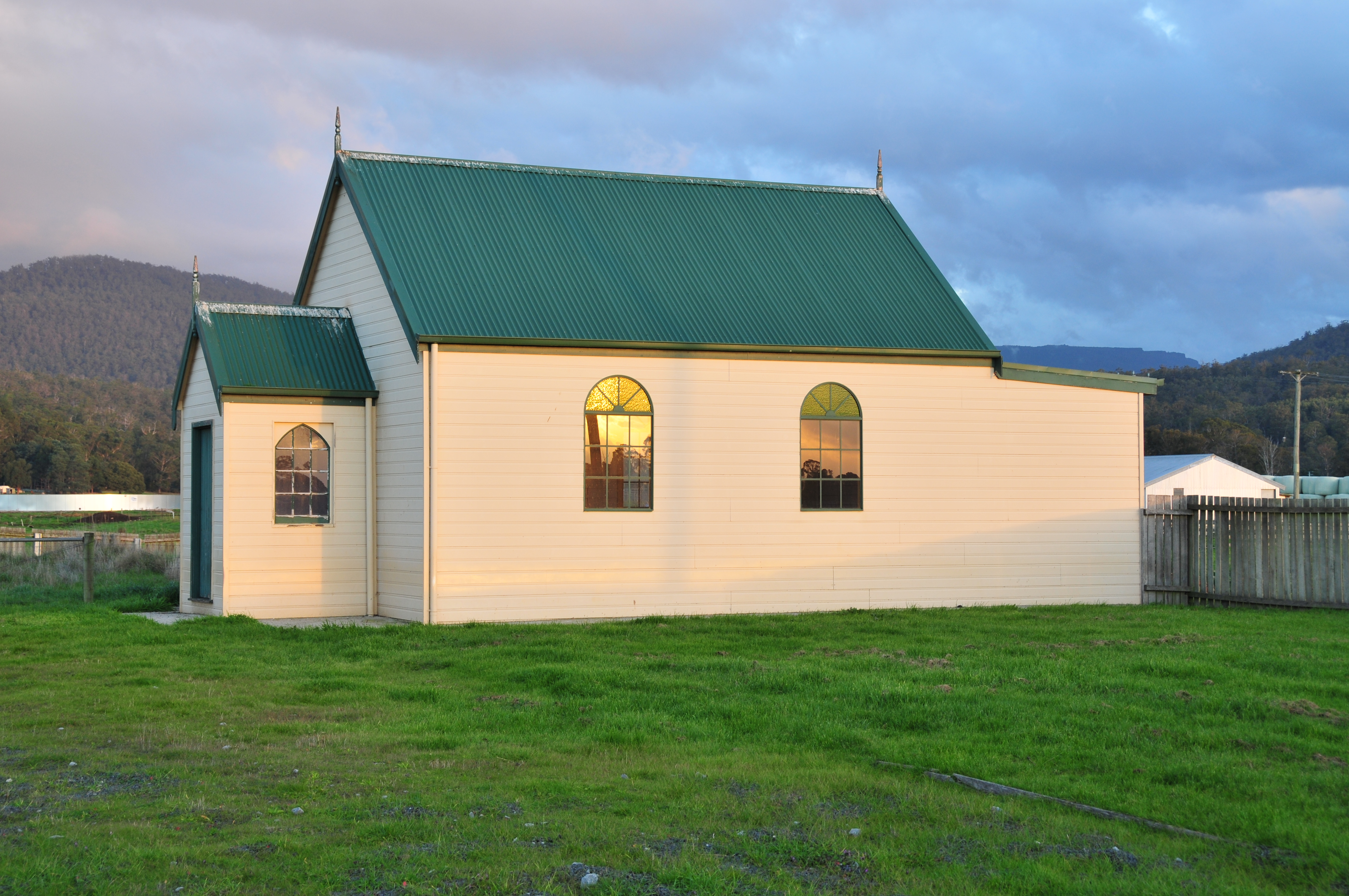 Former Baptist church building, now privately owned, in Meander Tasmania